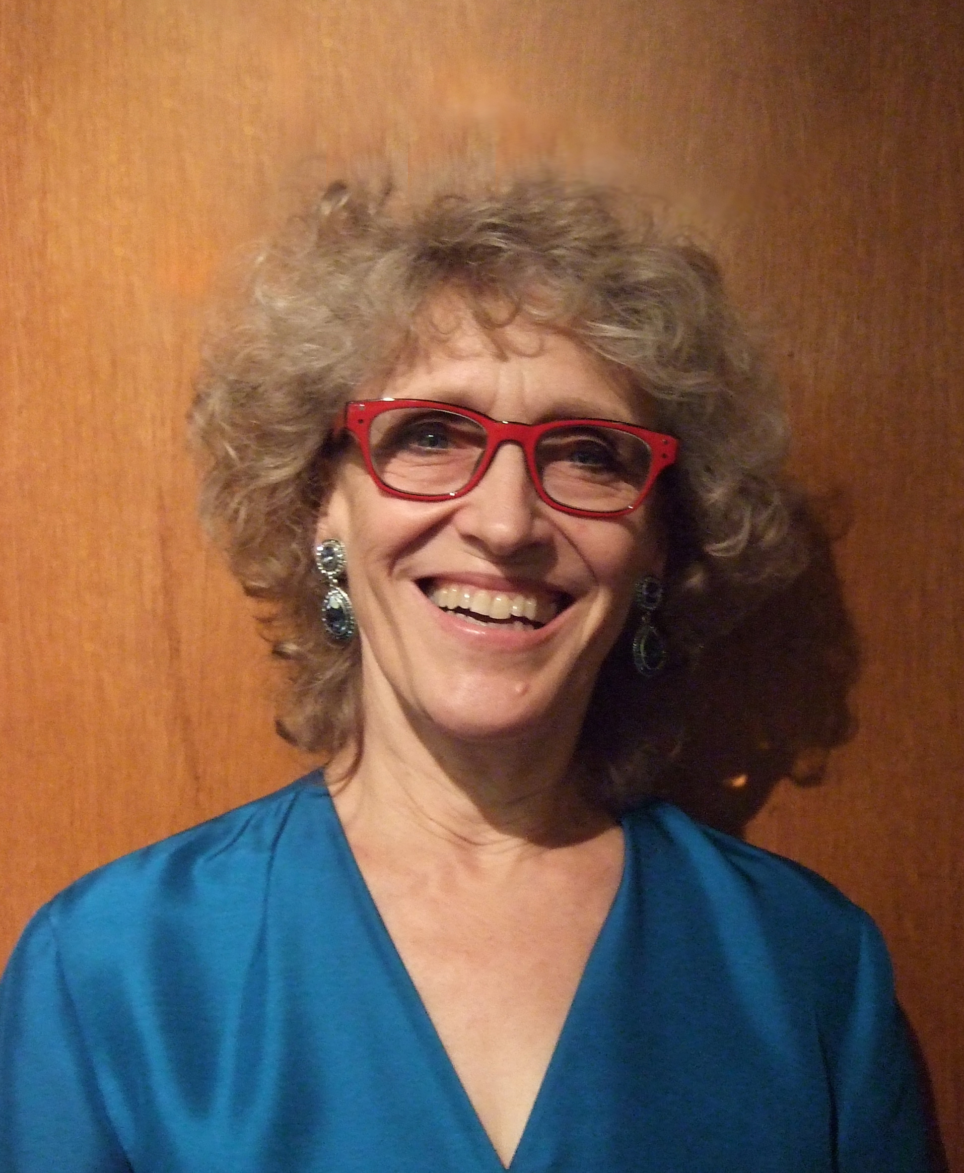 Photograph of conductor Jane Hulting, taken June 6, 2015 at the 40th Anniversary Concert of the Anna Crusis Women's Choir, Philadelphia, PA